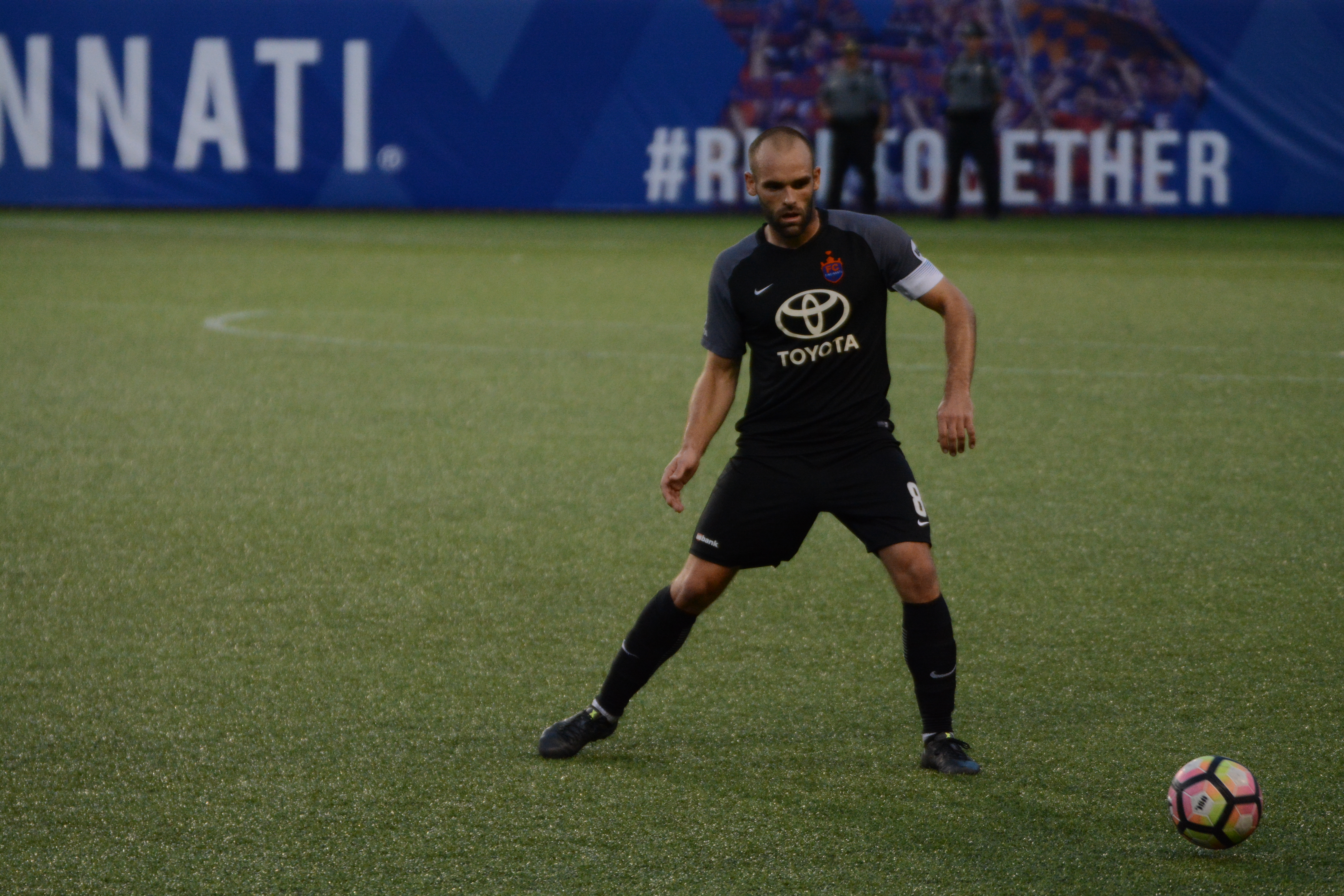 Paul Nicholson Taken at a Lamar Hunt U.S. Open Cup match between FC Cincinnati and AFC Cleveland at Nippert Stadium in Cincinnati, Ohio on May 17, 2017.